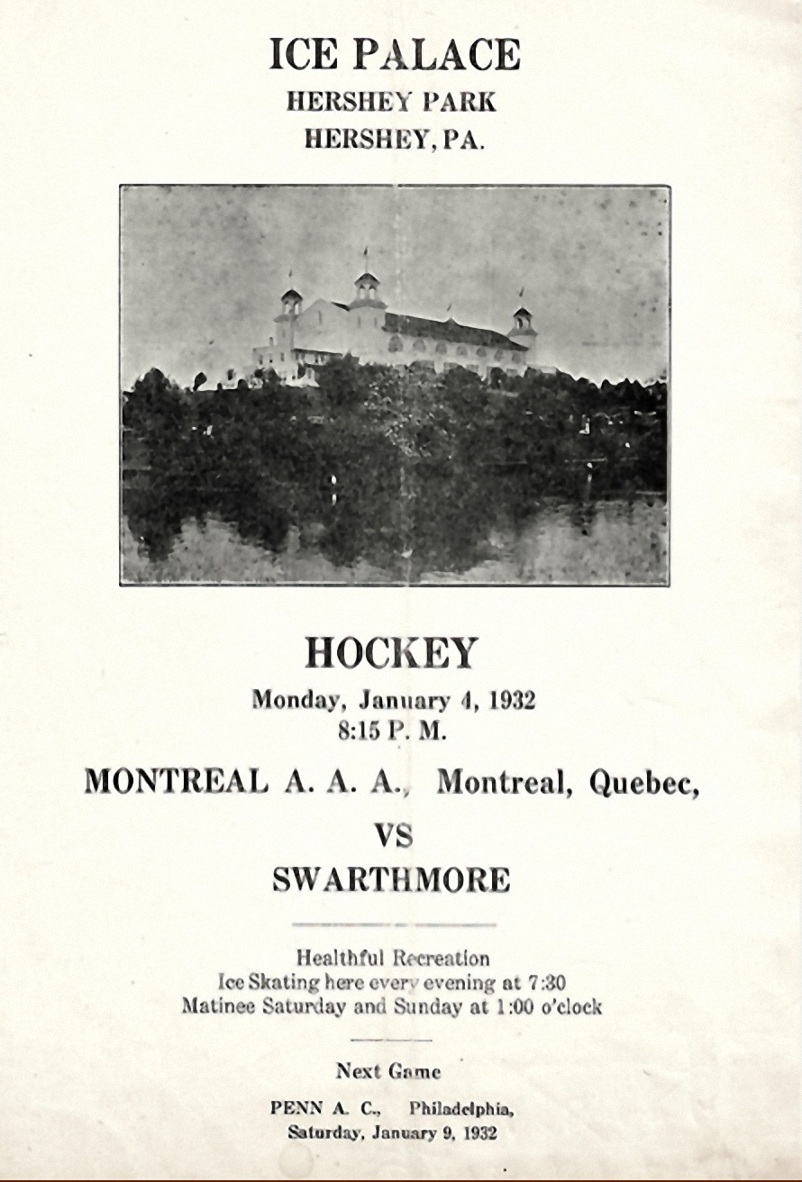 Cover of Ice Hockey Program, "Montreal A.A.A. vs Swarthmore" played at the Ice Palace, Hershey Park, Hershey, PA. January 4, 1932